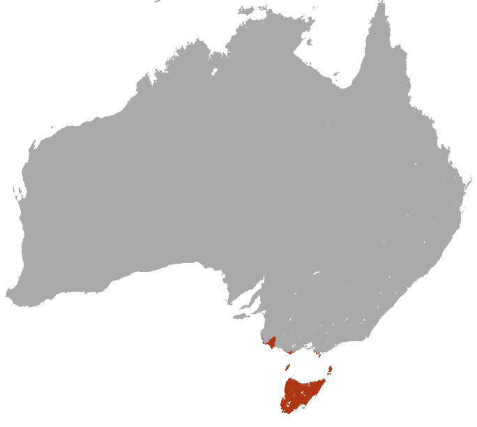 Swamp Antechinus (Antechinus minimus) range